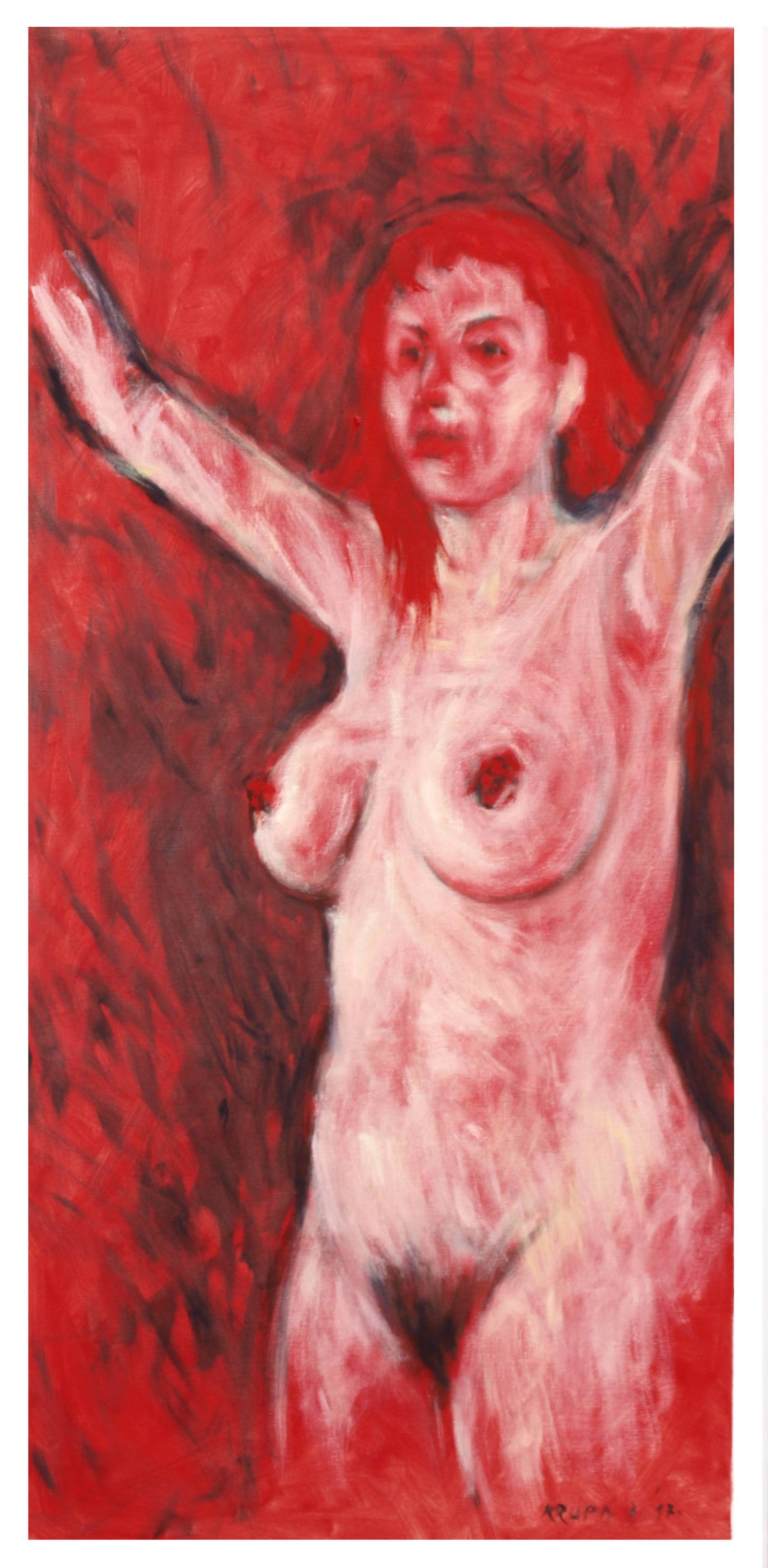 Contemporary realism and Neo-figurative work